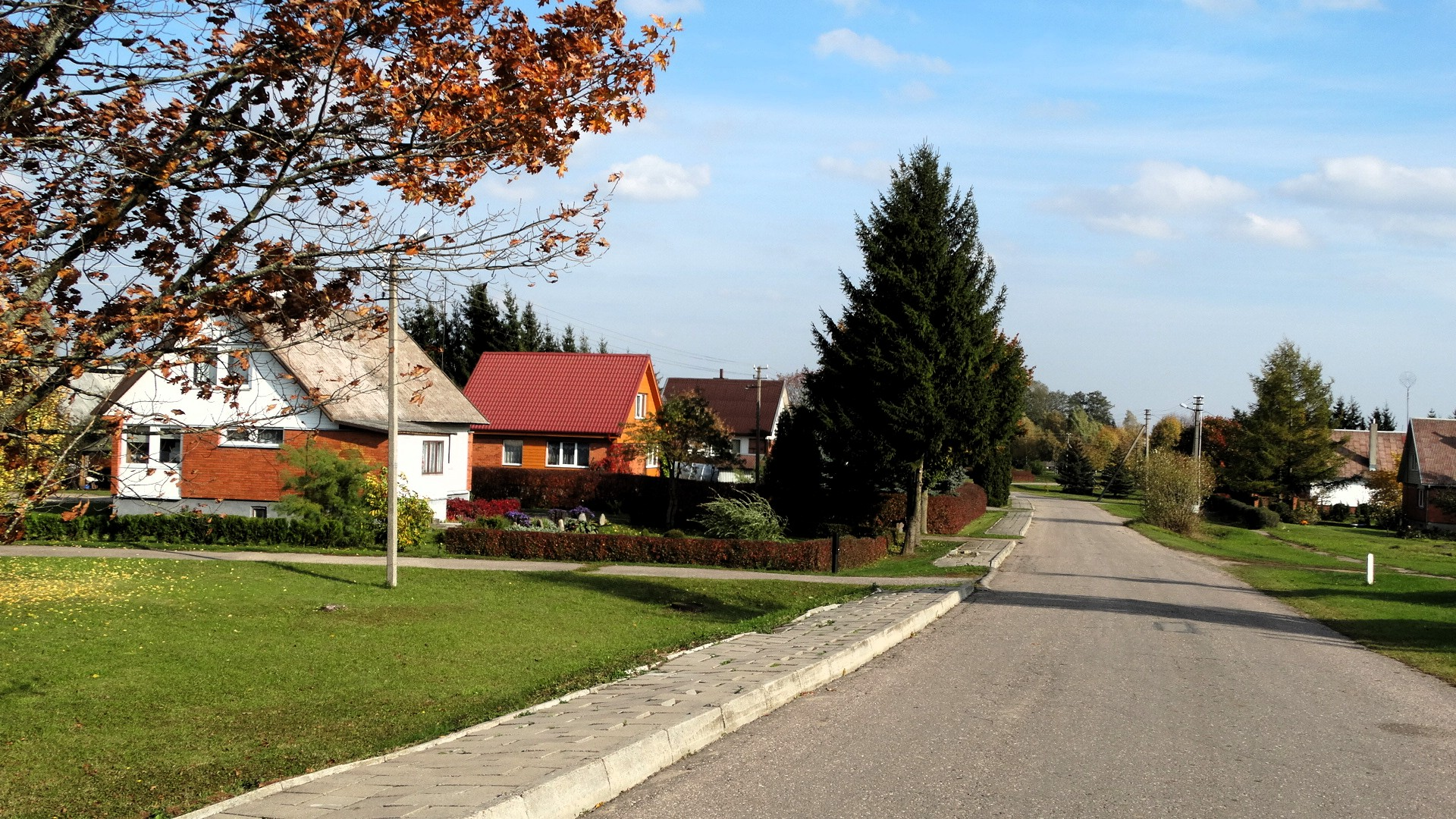 Verebiejai, Alytus district, Lithuania